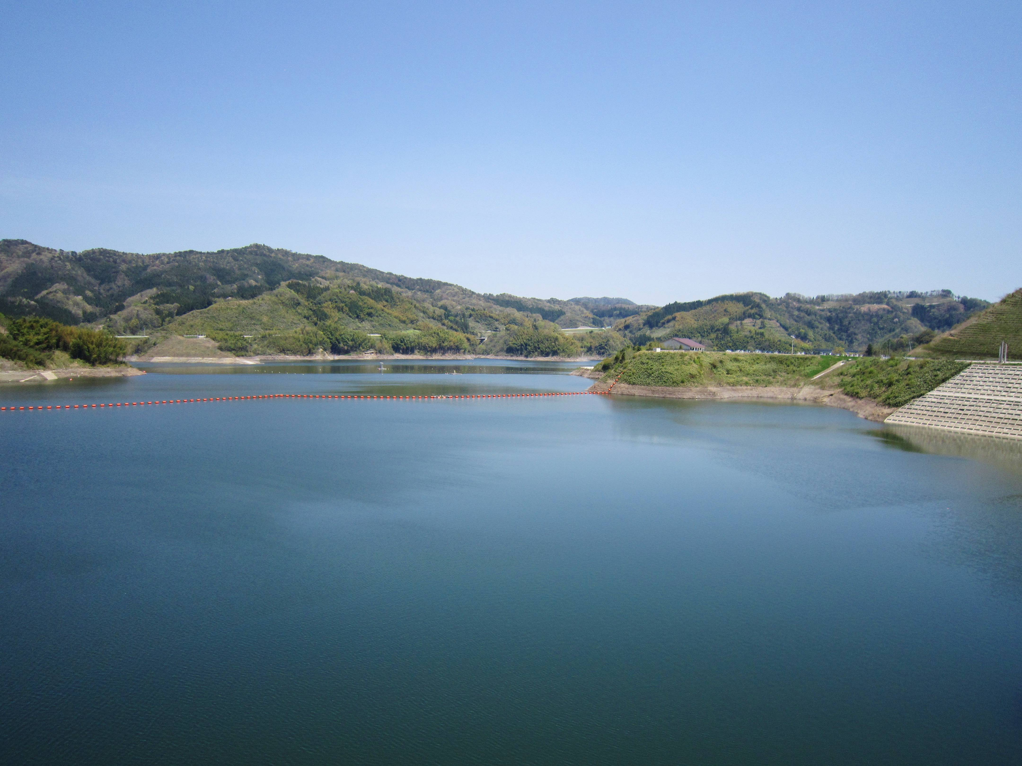 Obara Dam lake.